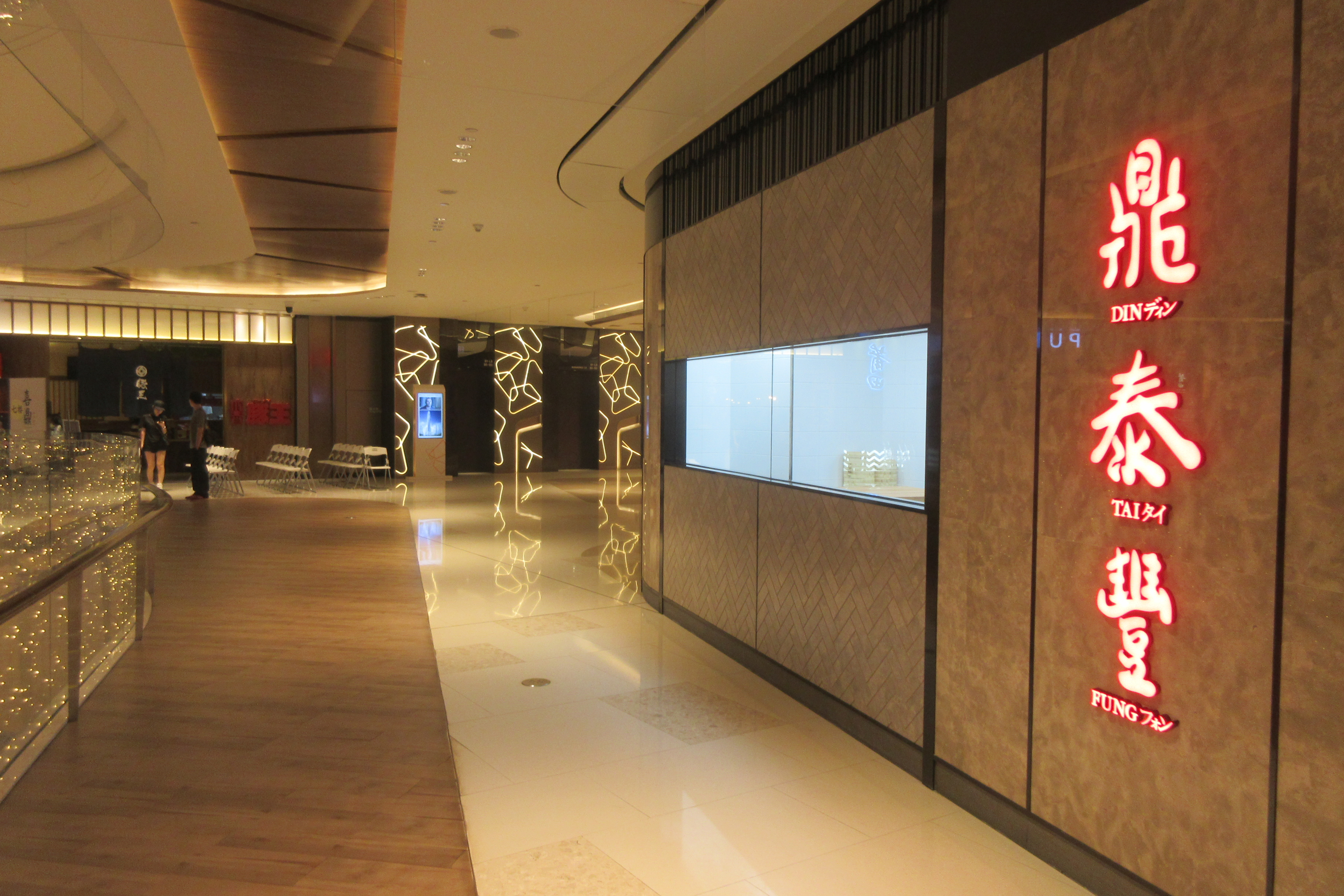 SZ 深圳市 Shenzhen 福田區 Futian Ping An Finance Centre 平安金融中心商場 PAFC Mall in April 2019